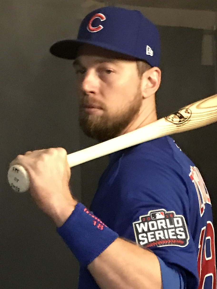 Ben Zobrist has his picture taken in the World Series photo studio.